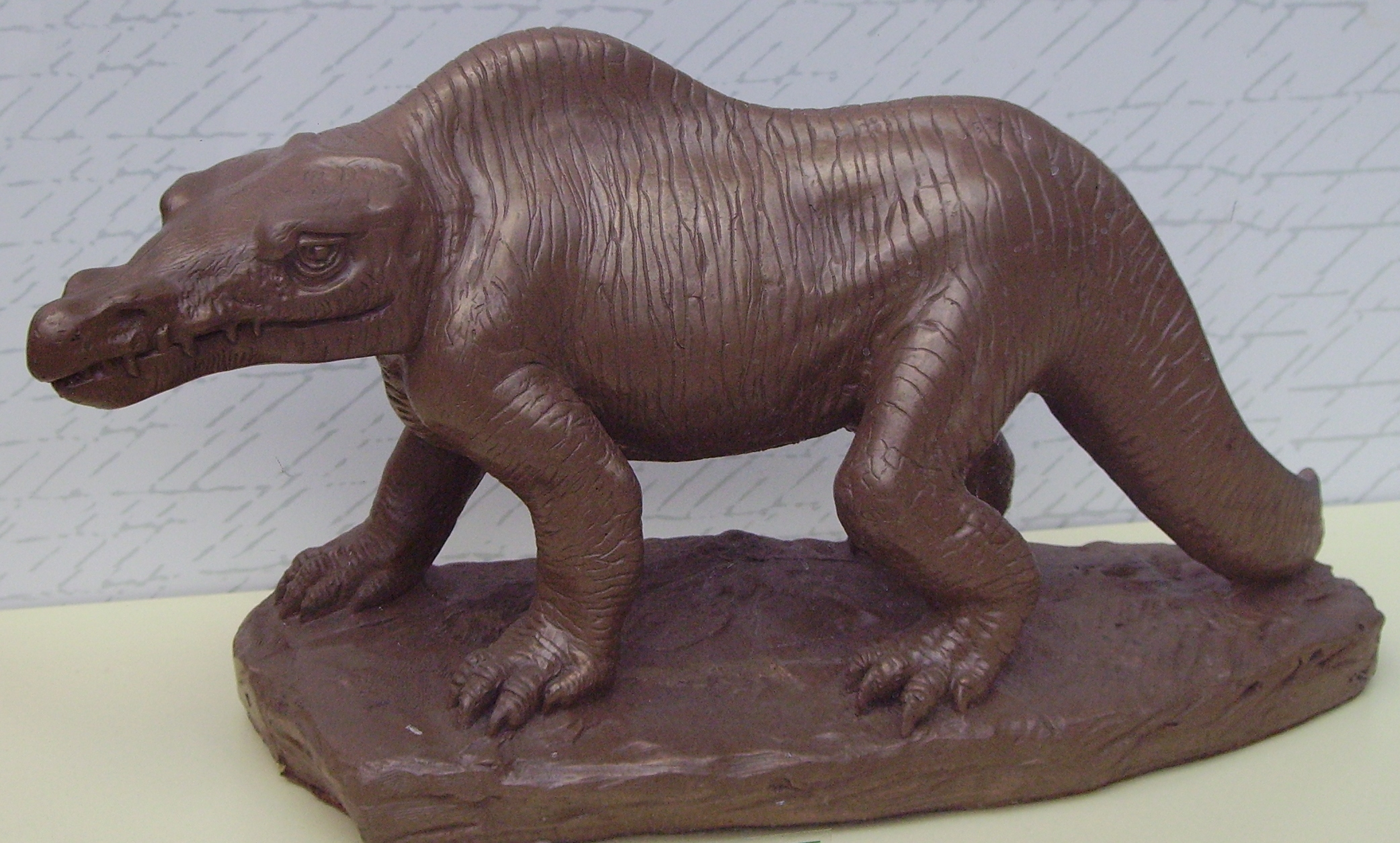 Megalosaurus - 19th Century reconstruction, Oxford Museum.